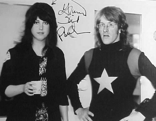 Promotional photo of Grace Slick and Paul Kantner-Jefferson Starship.